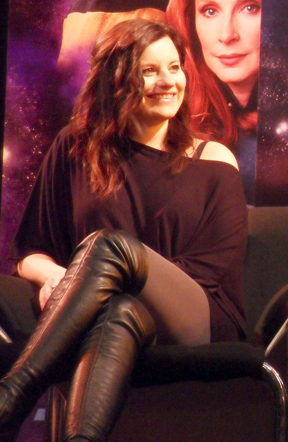 CzechTREK 2013, Kulturní centrum Novodvorská, Prague, Czech Republic Personality rights warningAlthough this work is freely licensed or in the public domain, the person(s) shown may have rights that legally restrict certain re-uses unless those depicted consent to such uses. In these cases, a model release or other evidence of consent could protect you from infringement claims.